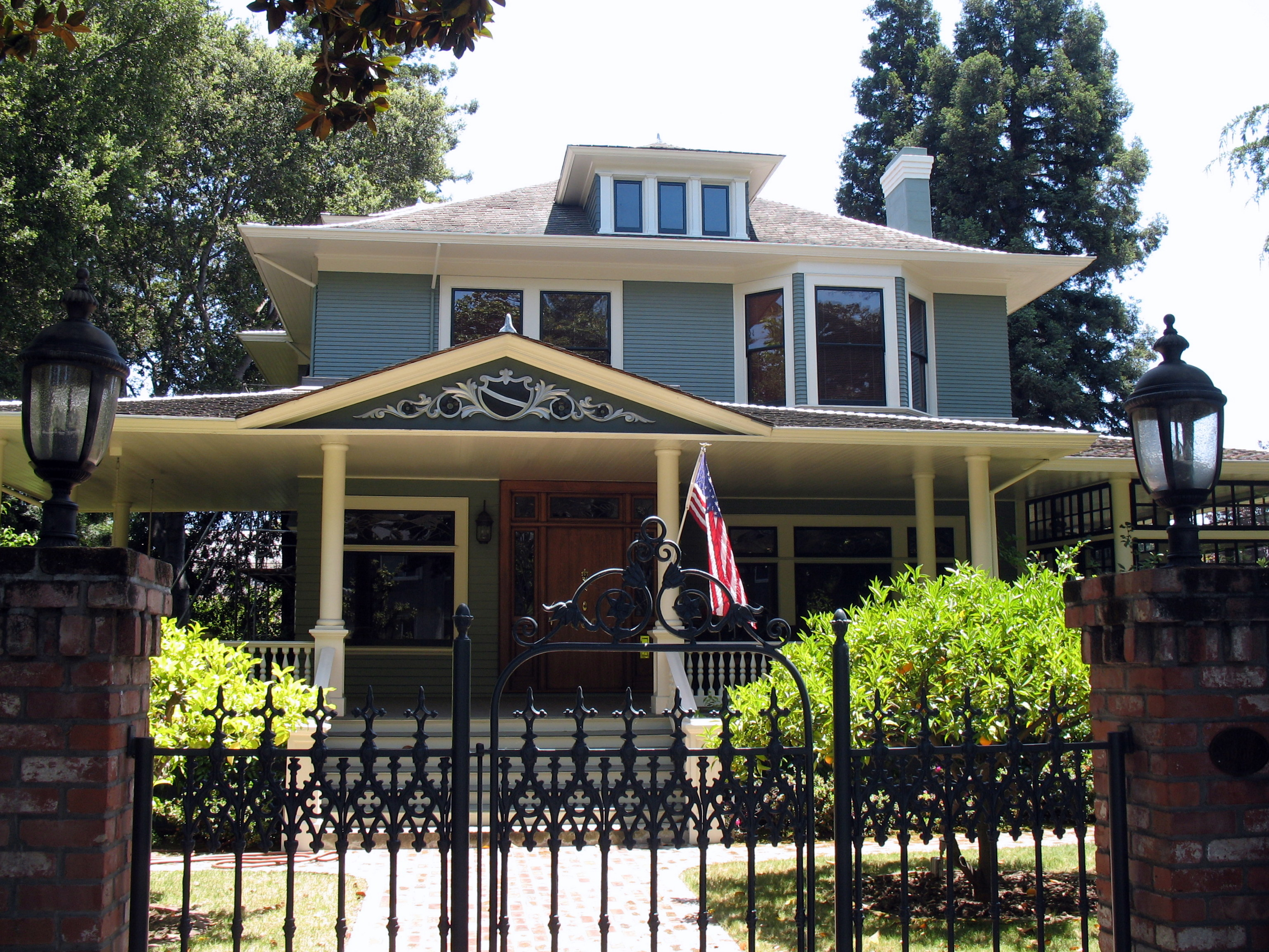 National Register of Historic Places listings in Santa Clara County, California Wilson House (aka Peck House), 860 University Ave., Palo Alto, CA